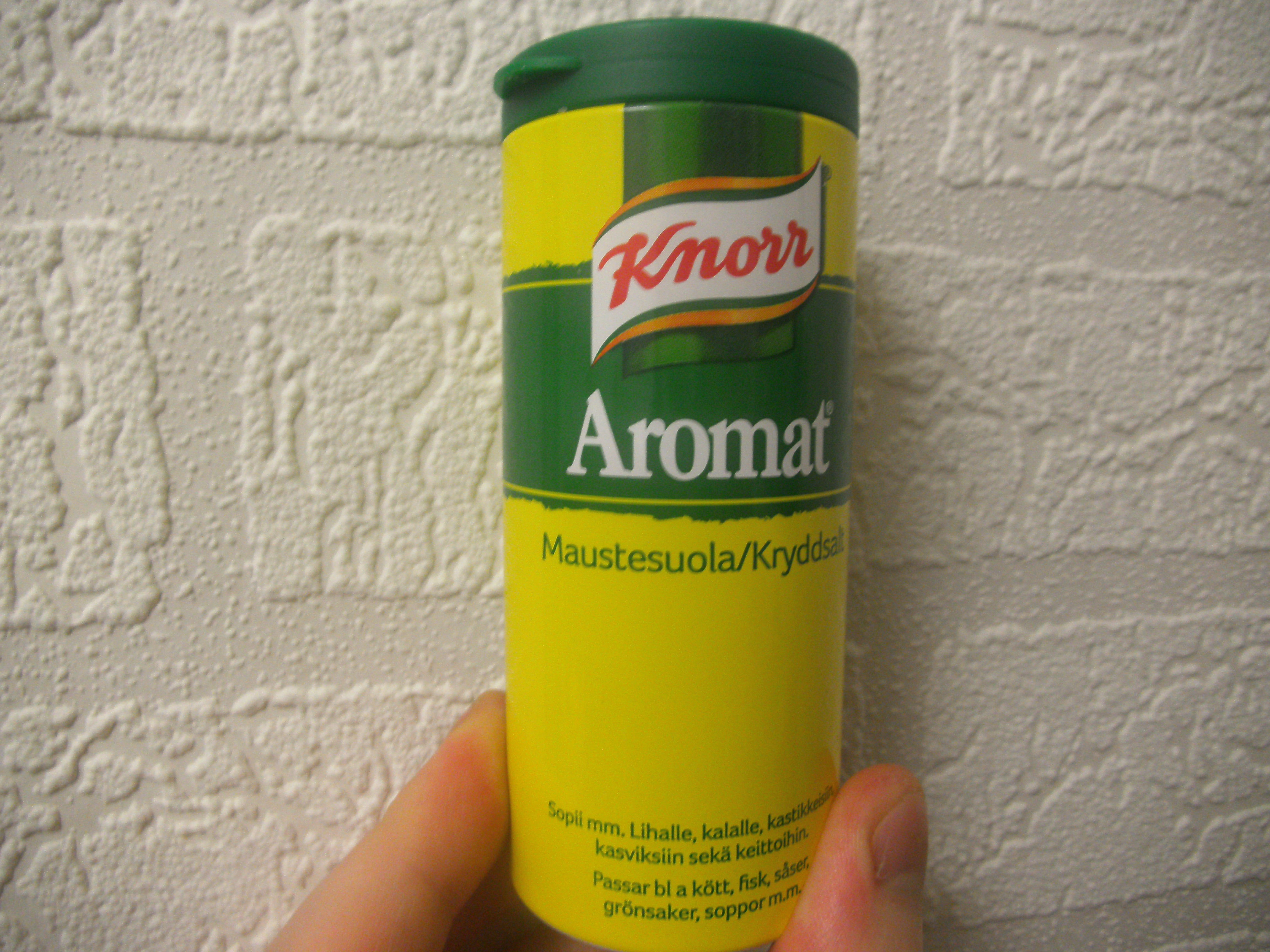 Knorr aromat, purchased in Sweden 2016.